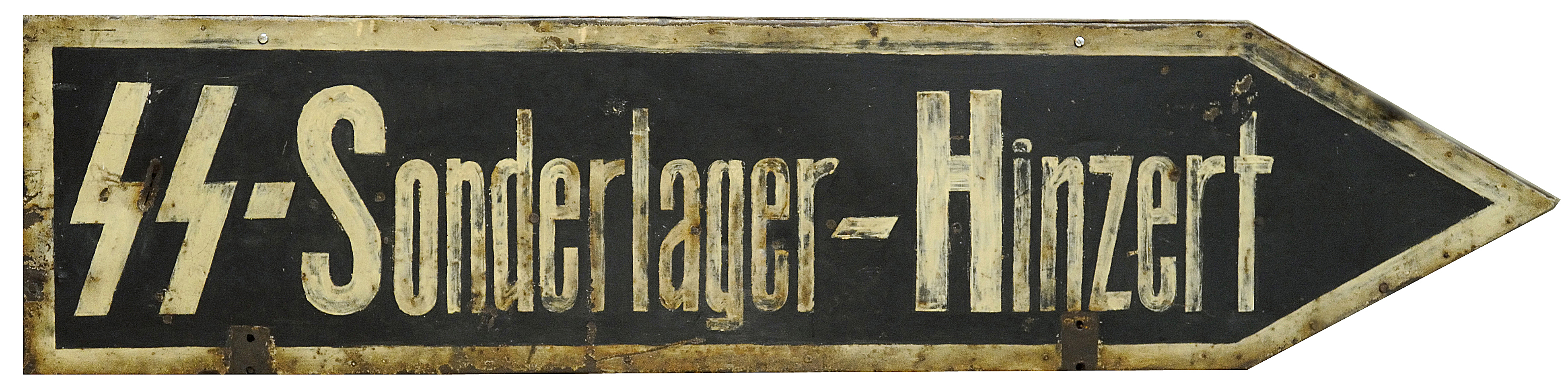 Historical road sign at the concentration camp (1939-1945) at Hinzert, Germany. The sign is presently part of the permanent exposition in the Musée national de la résistance in Esch-sur-Alzette, Luxembourg